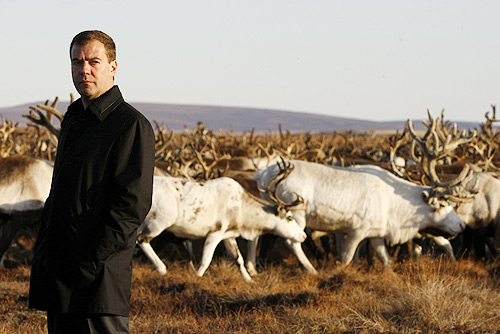 CHUKOTKA. A visit to the reindeer herding brigade.